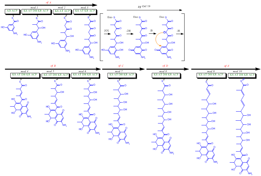 Biosynthesis of Rifamycin a